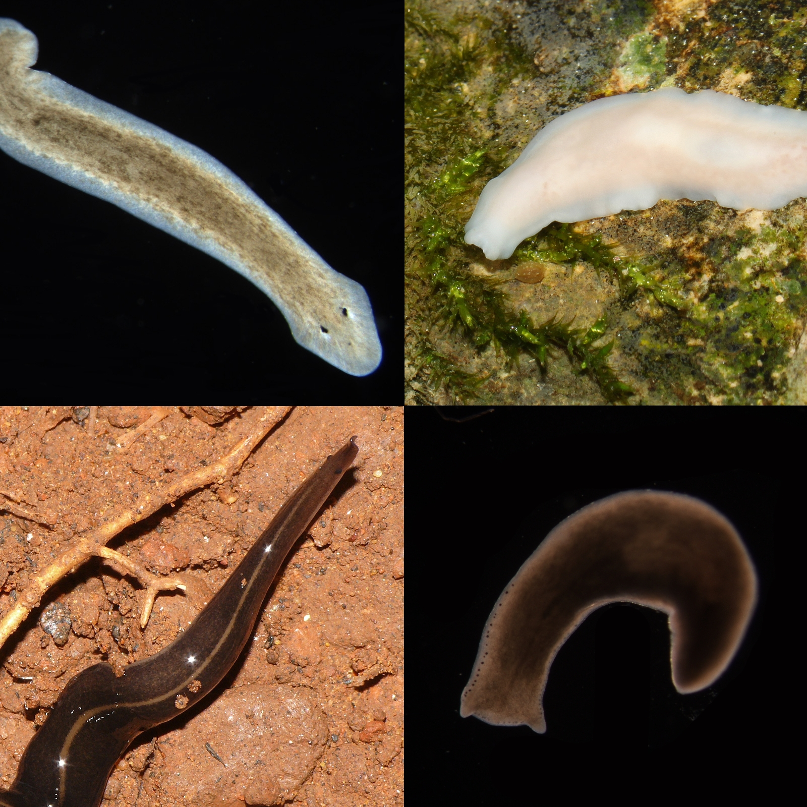 Images of four of the Continenticola families: Top left: Dugesia subtentaculata (Dugesiidae) Top right: Dendrocoelum cavaticum (Dendrocoelidae) Down left: Platydemus manokuari (Geoplanidea) Down right: Polycelis felina (Planariidae)